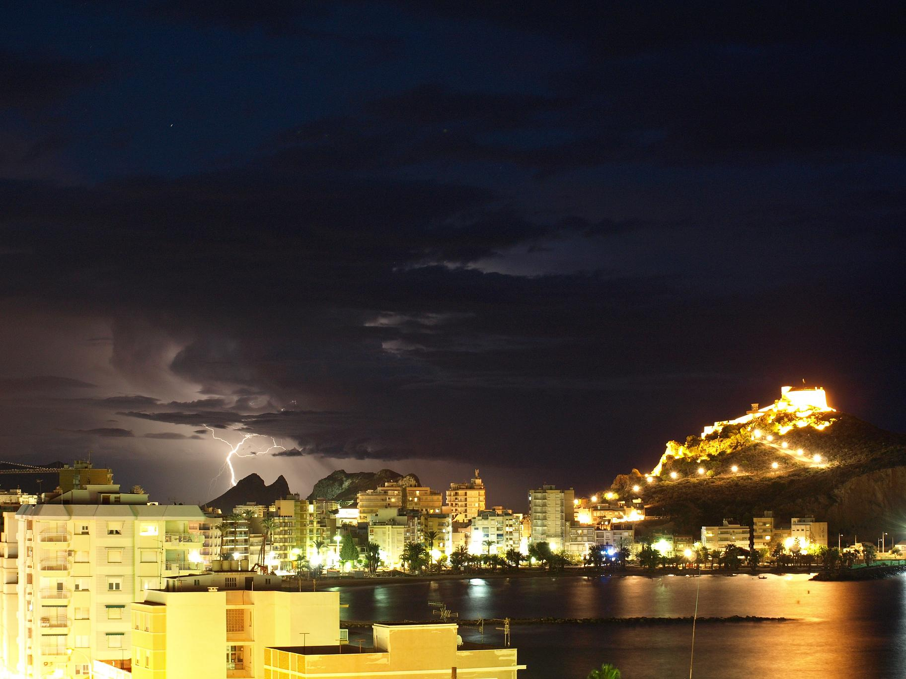 Storm over Aguilas (Spain)